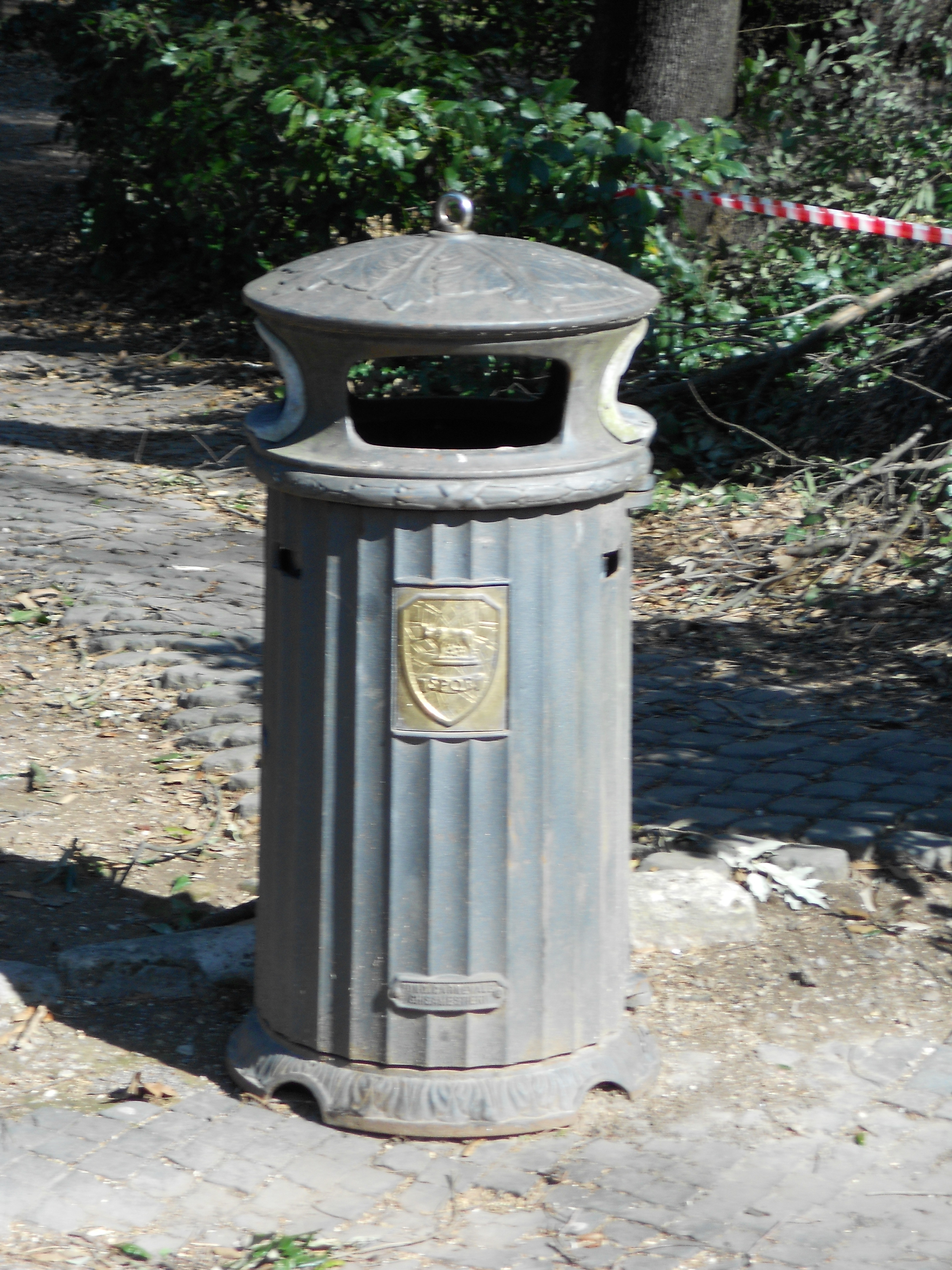 Trash bin in the Parc of the villa Borghese, Rome, with the inscription SPQR